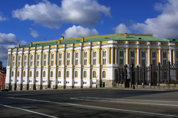 Moscow, the Kremlin. The Armory